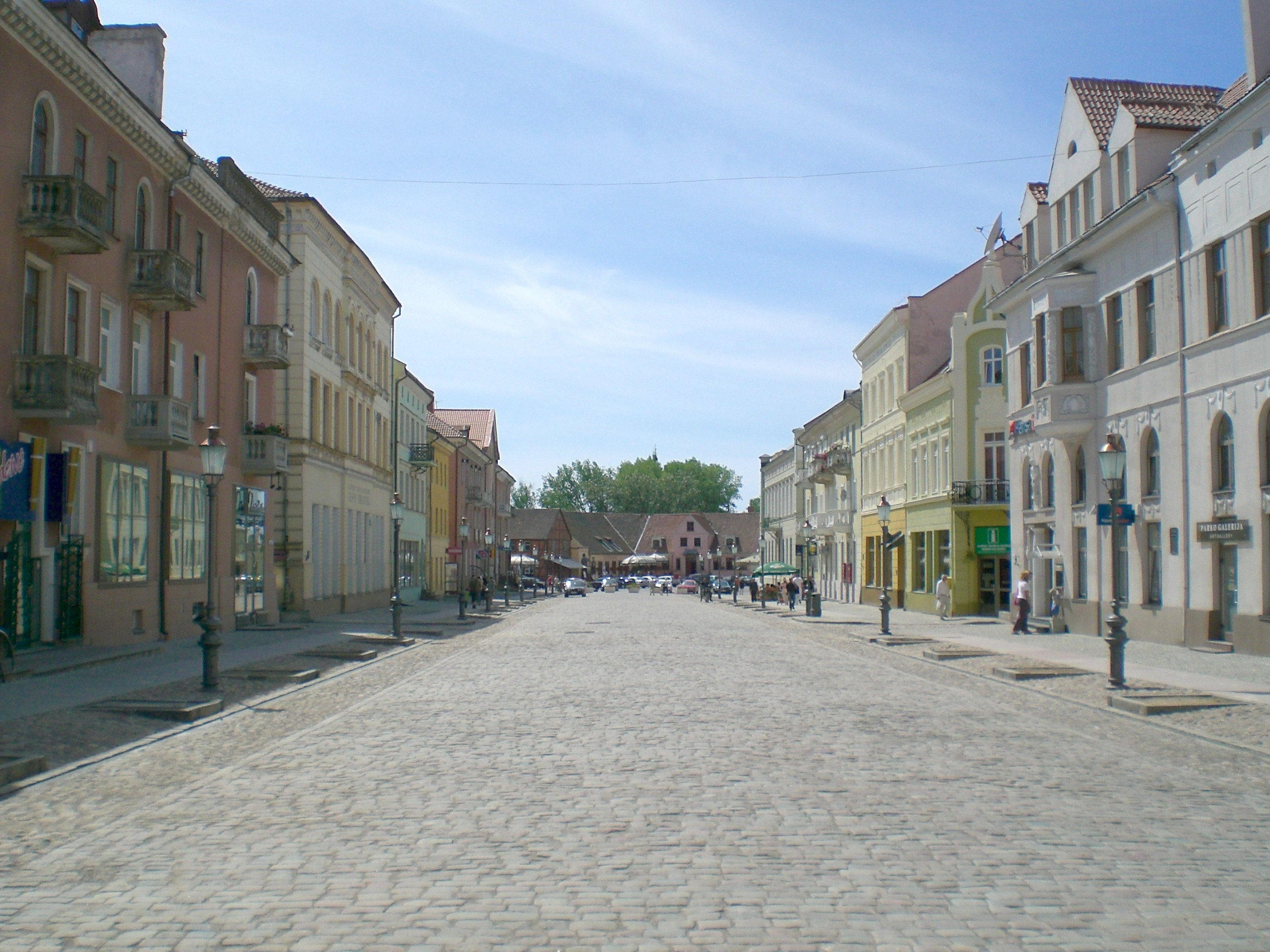 Market street (turgaus gatvė) in Klaipėda, Lithuania